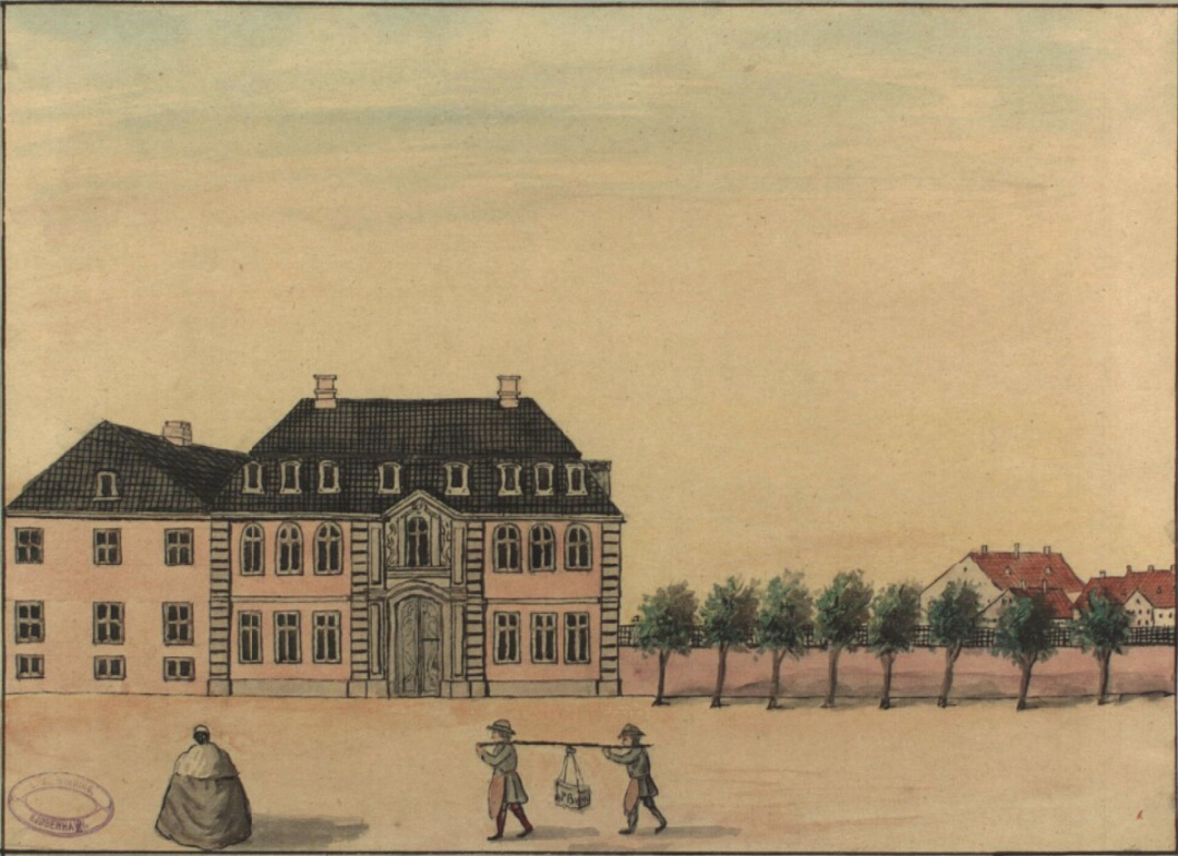 Grev Gyldensteens gård efter J. Rach og Eegberg i Dronningens Tværgade, 1749